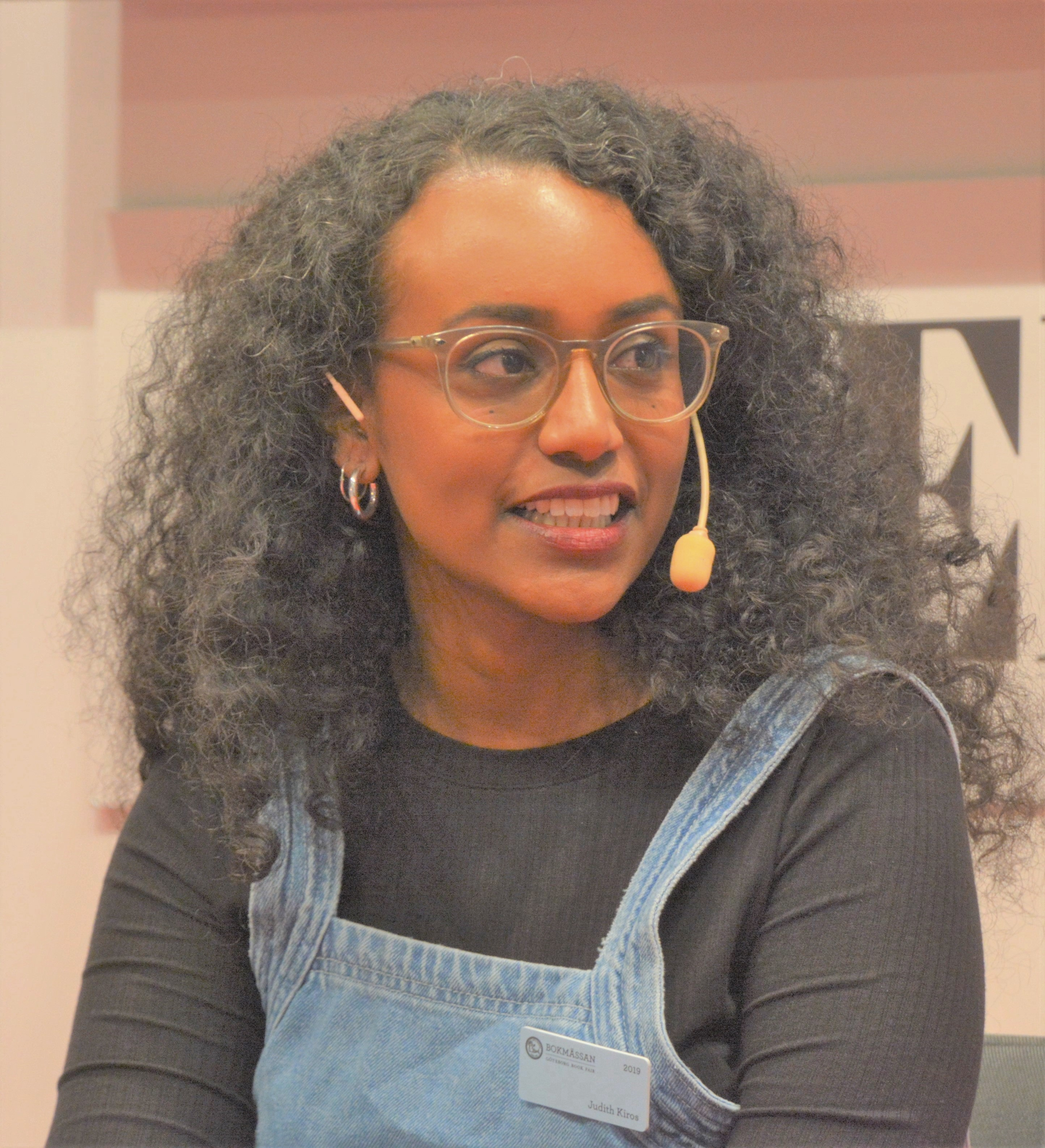 Judith Kiros at Göteborg Book Fair 2019